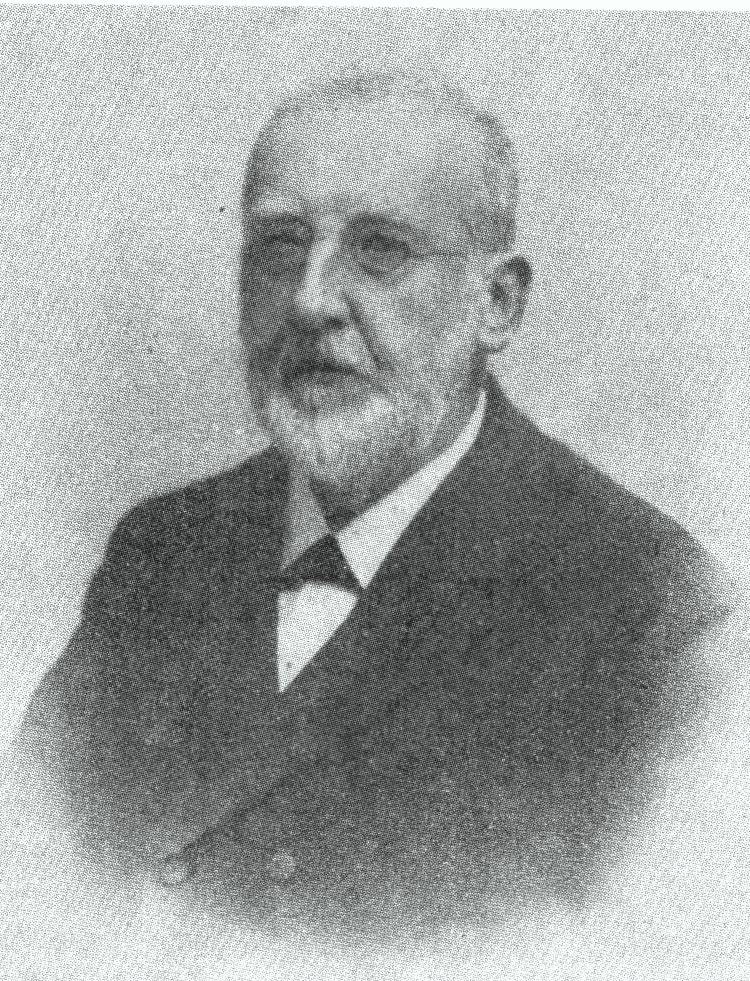 Jakob Schnekenburger, mayor of Tuttlingen, Germany (1829-1866)